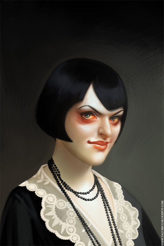 "Asenath Waite", illustration by Paco Rico Torres ( cover for Innsmouth Magazine Collected Issues 1-4, publisher Innsmouth Free Press (